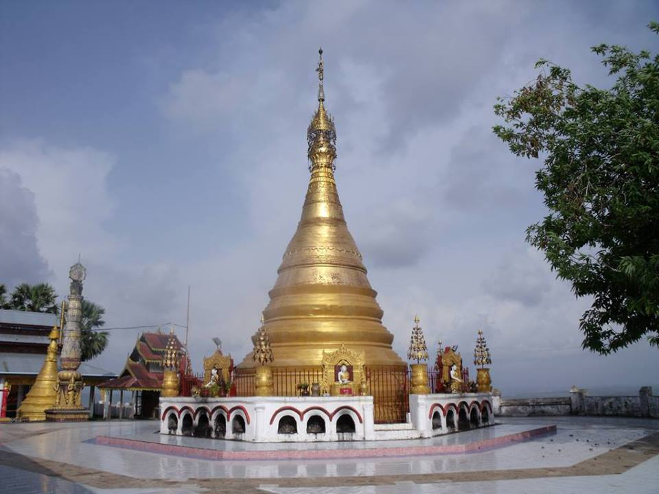 Minbya Mountain Pagoda